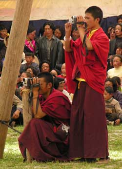 Monks are filming the Mask Dance in the Chodrag Gompa Monestery (North Kham) with their modern digital cameras.